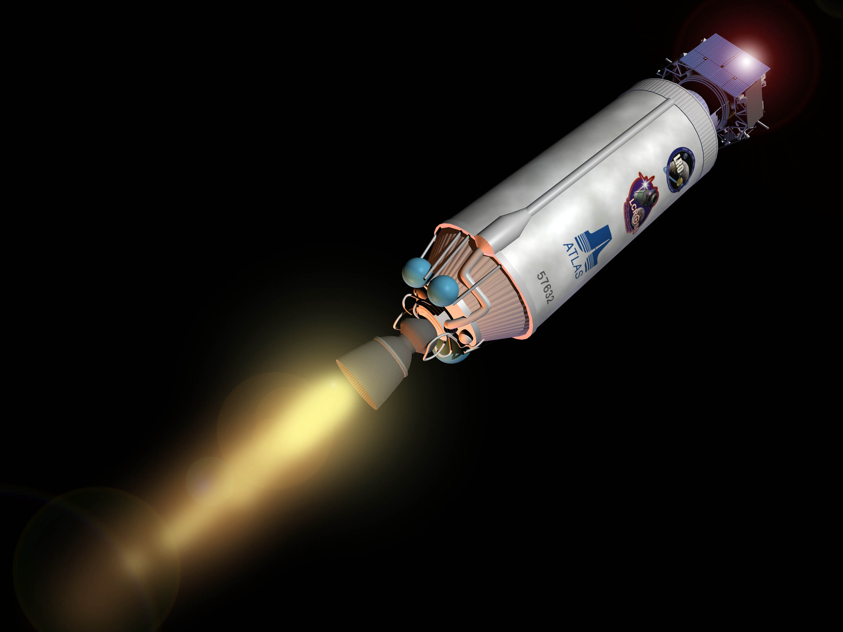 LCROSS spacecraft with Centaur Stage